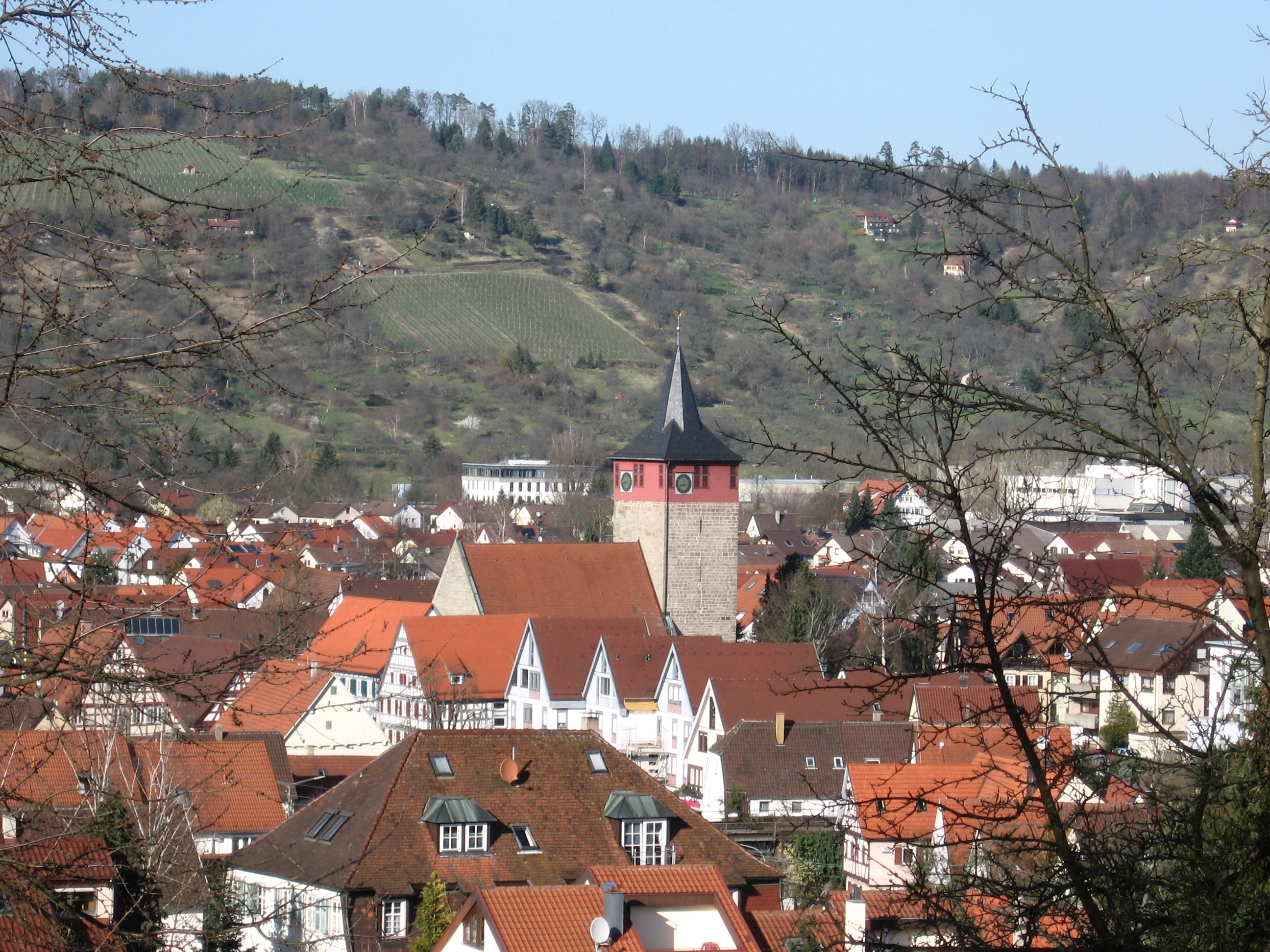 Winterbach (Remstal), Ortskern und Kirche Winterbach (Remstal), Germany: center of village with church